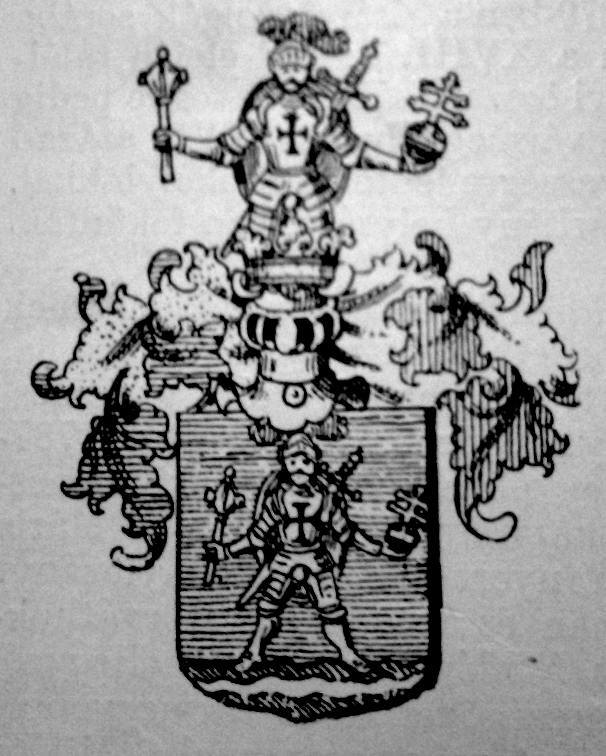 Coat of arms of Ivánka family